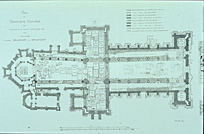 Plan of Trondheim cathedral